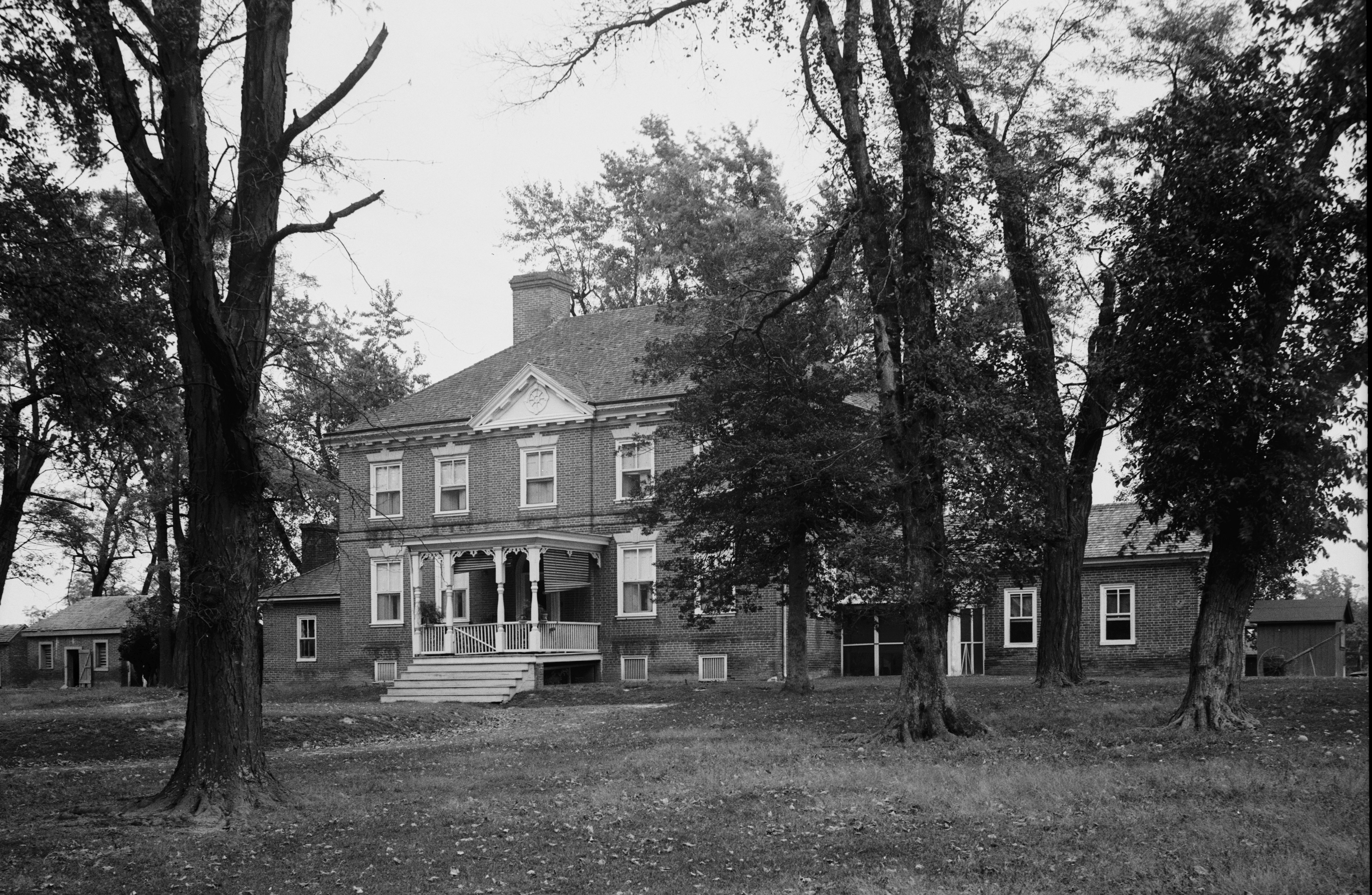 Historic American Buildings Survey E. H. Pickering, Photographer October 1936 - Greenfield Castle & Outbuildings, U.S. Route 213, Cecilton, Cecil County, MD